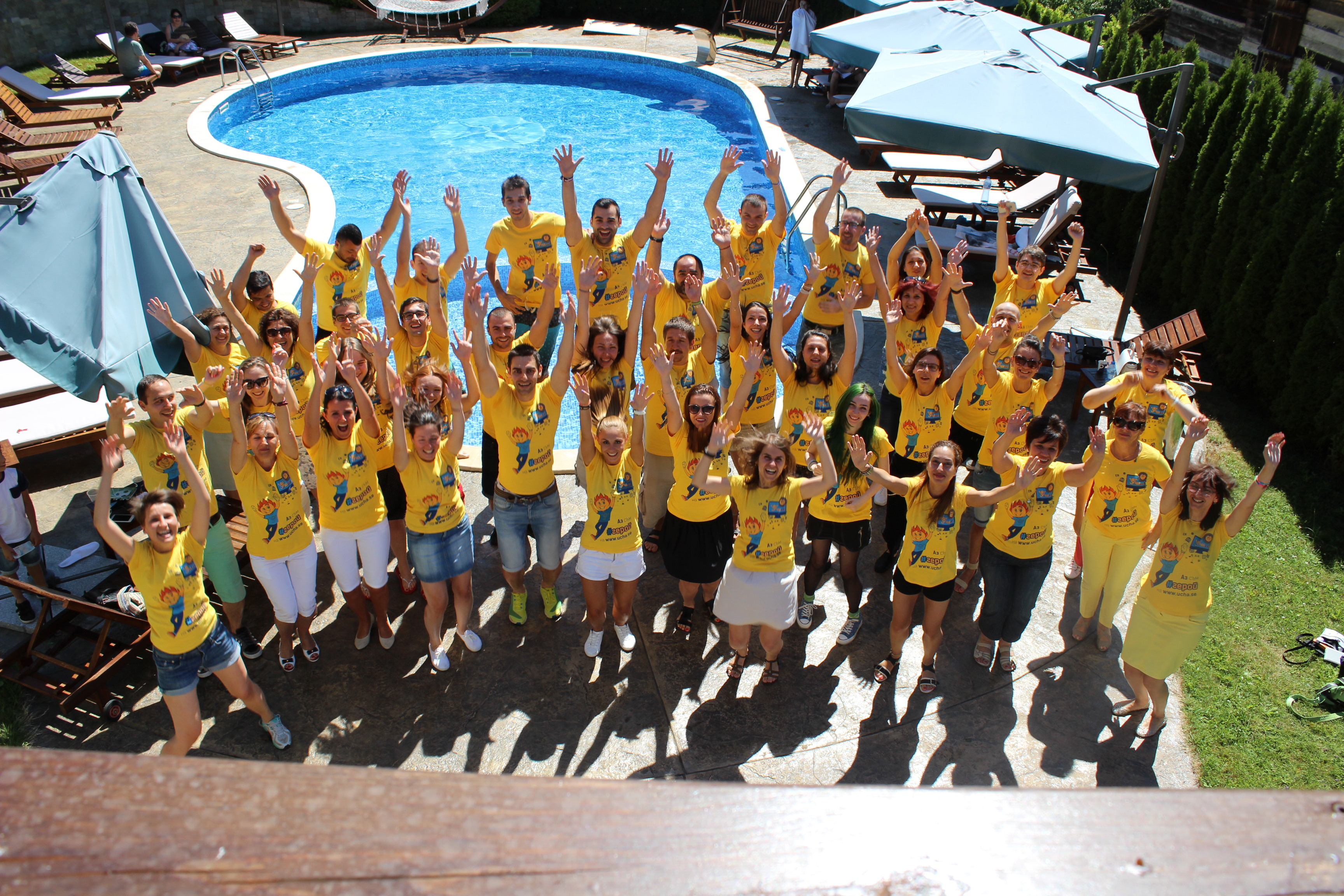 Уча.се екип